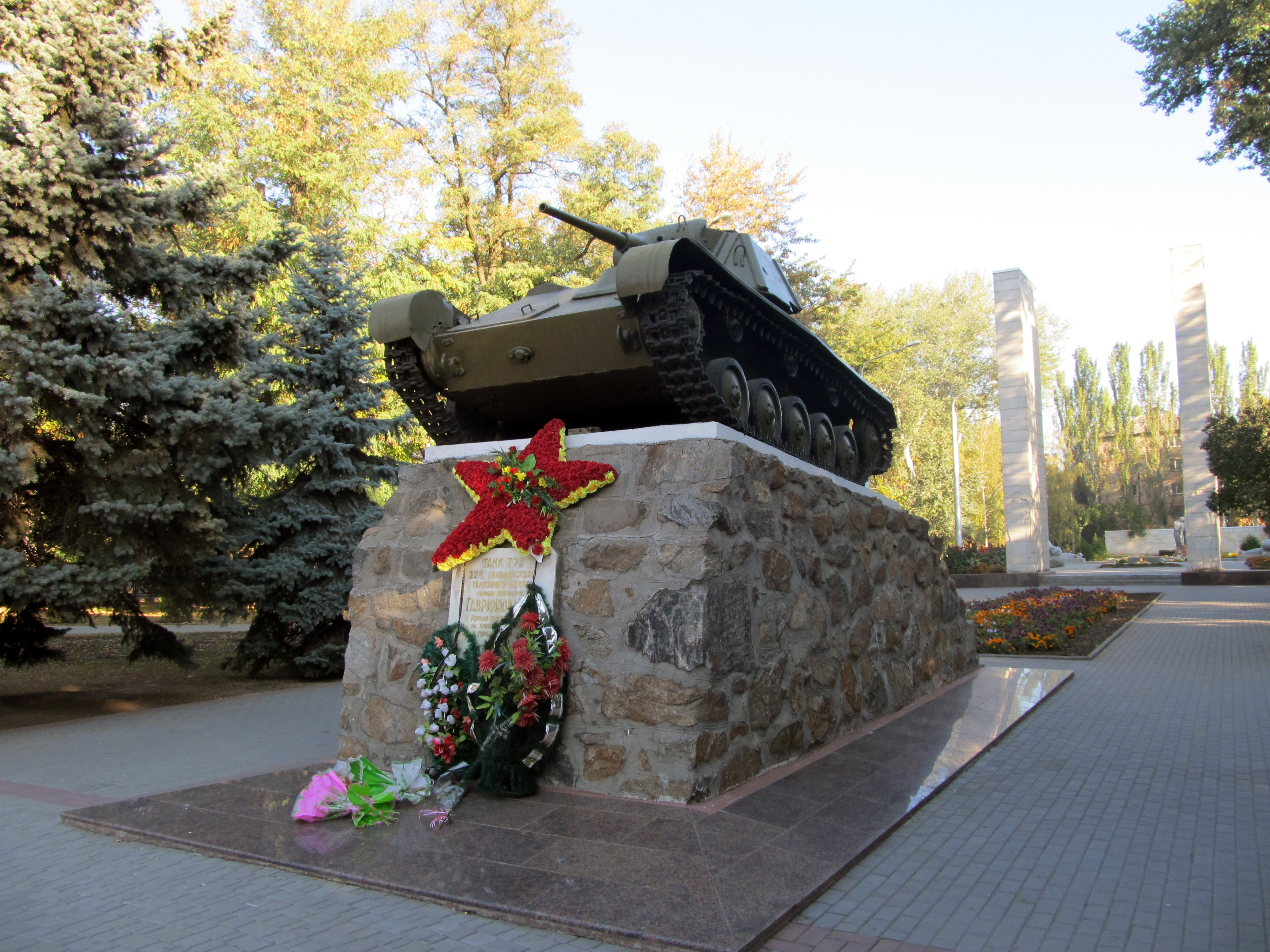 Kirova Street, Melitopol, Zaporizhia Oblast, Ukraine.